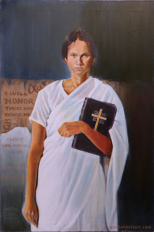 Fidelis ad Mortem: Portrait of Esther John by Gordon Bell